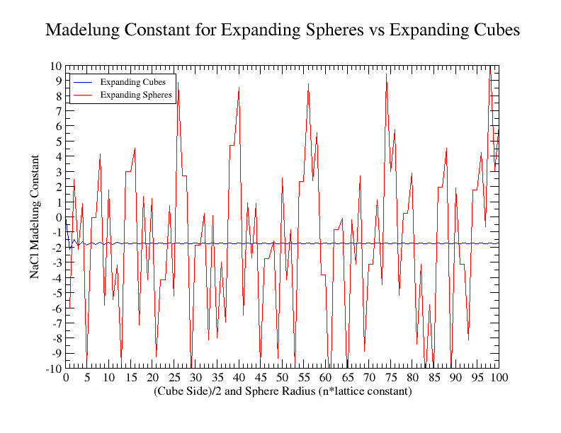 A plot of the Madelung constant for NaCl for both expanding spheres and expanding cubes. The cube for each N has side length 2N, and the size of the sphere for each N is just the sphere inscribed in that cube. Calculated with a simulation in c++, plotted in xmgrace.